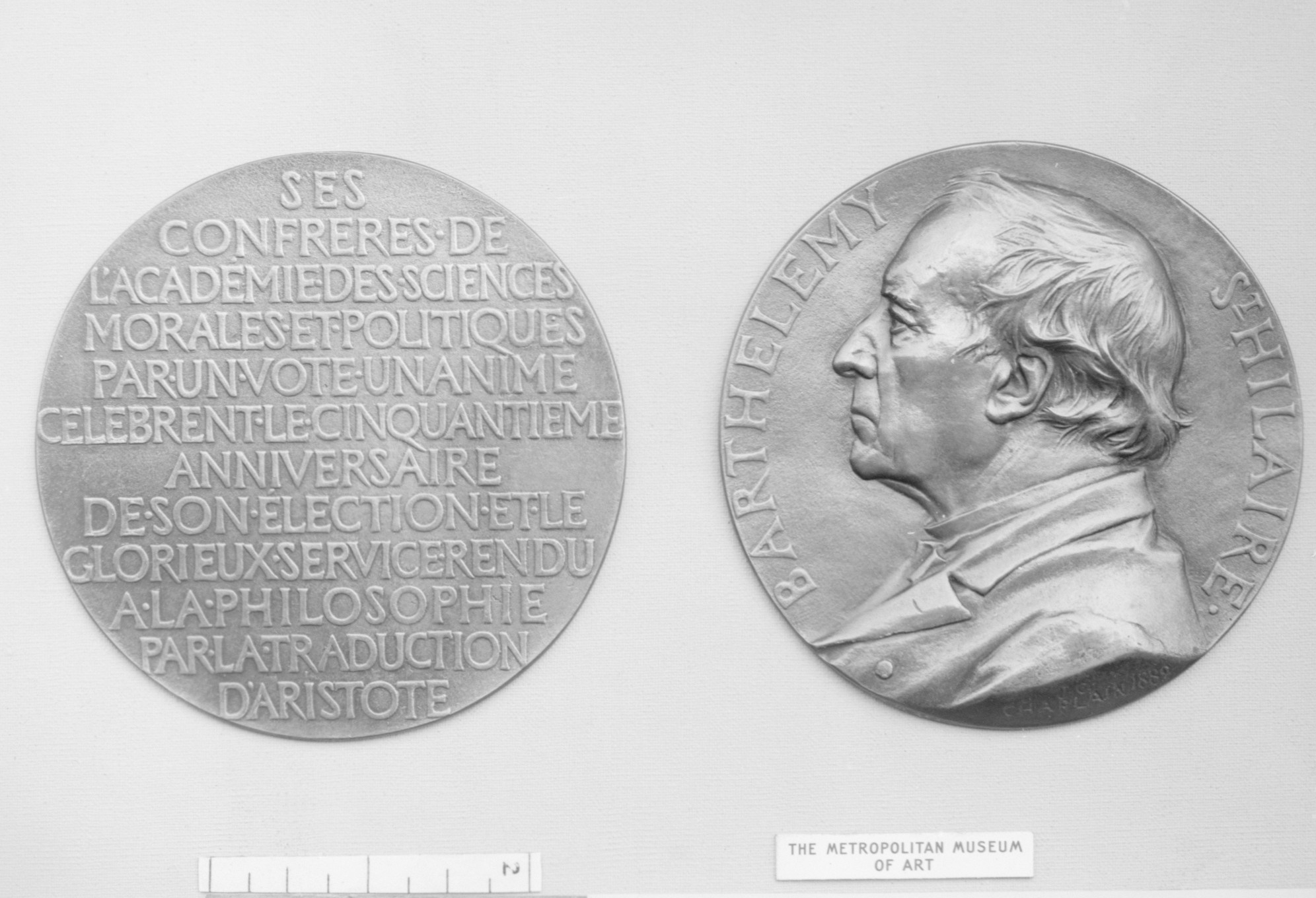 French; Medallion; Medals and Plaquettes